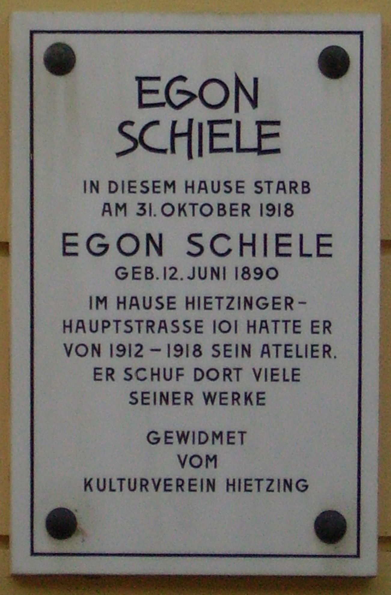 Egon Schiele memorial plaque at his last residence